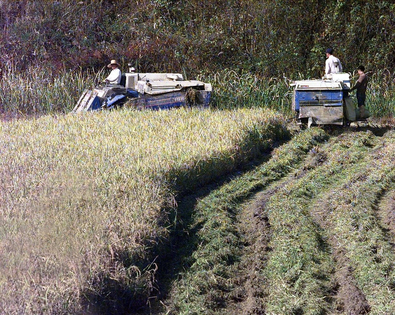 Villagers from Tae Song Dong harvest rice from rice paddies outside of the village. Tae Song Dong, also known as Freedom Village, is one of two villages that stand inside the DMZ and the only one to stand on the South Korean side of the Military Demarkation Line (DML). The DML is the line that divides North and South Korea.